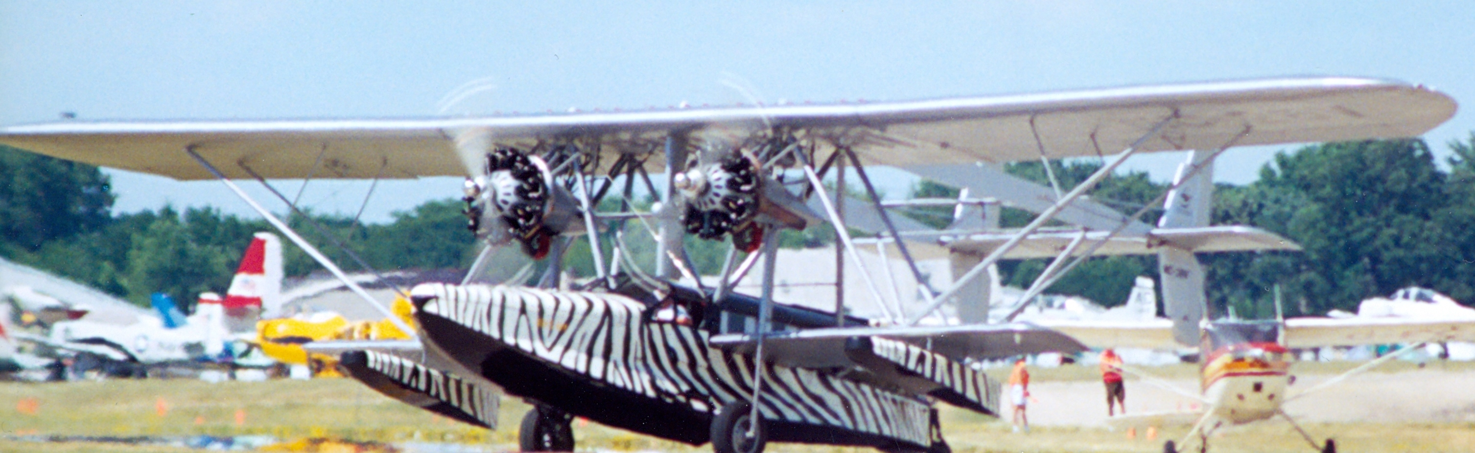 Sikorsky S-38 Osas Ark